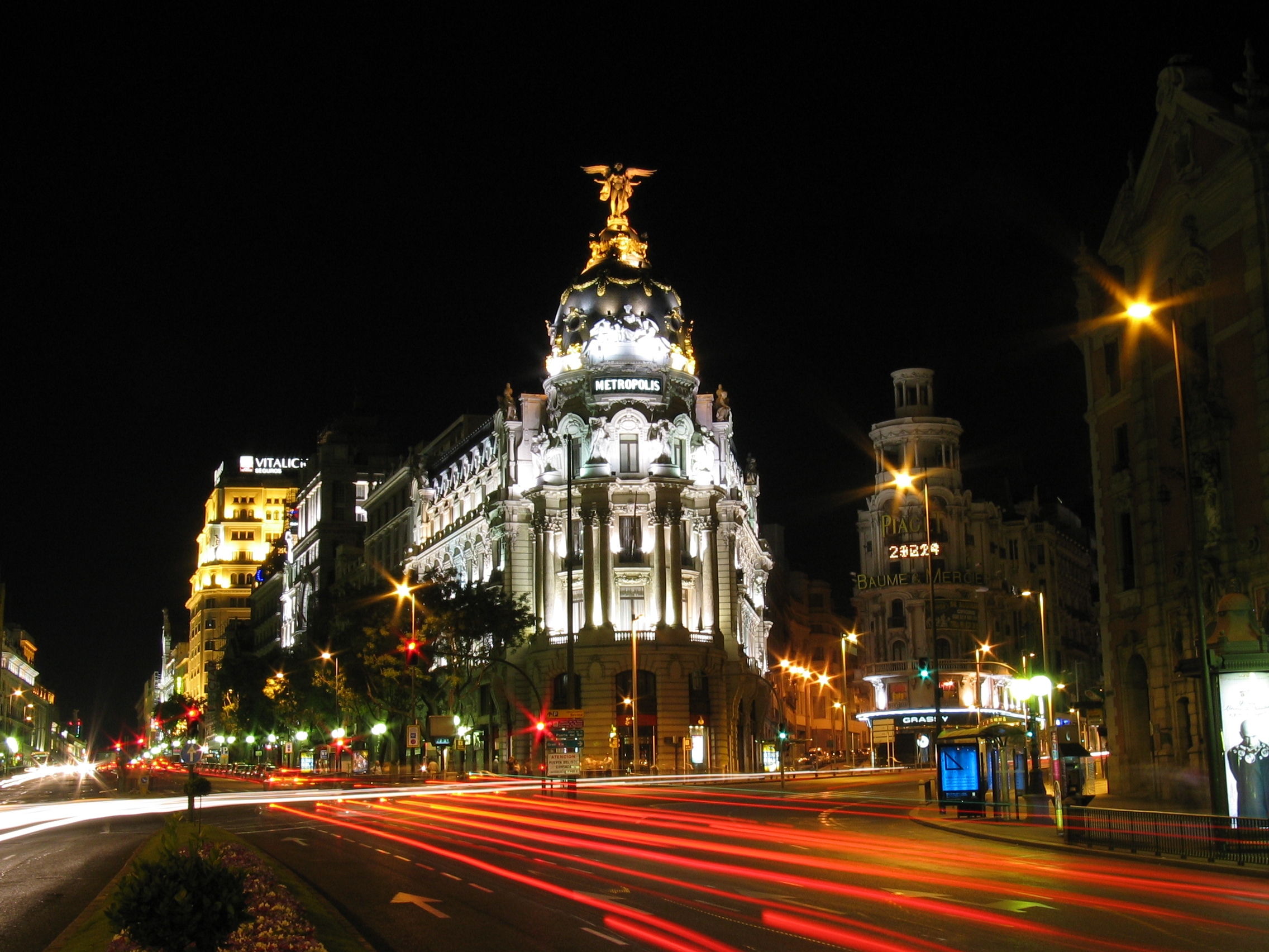 Night view from Calle de Alcalá (street) in Madrid (Spain). At the centre, Metropolis Building (1911). At the right, Gran Vía (street).